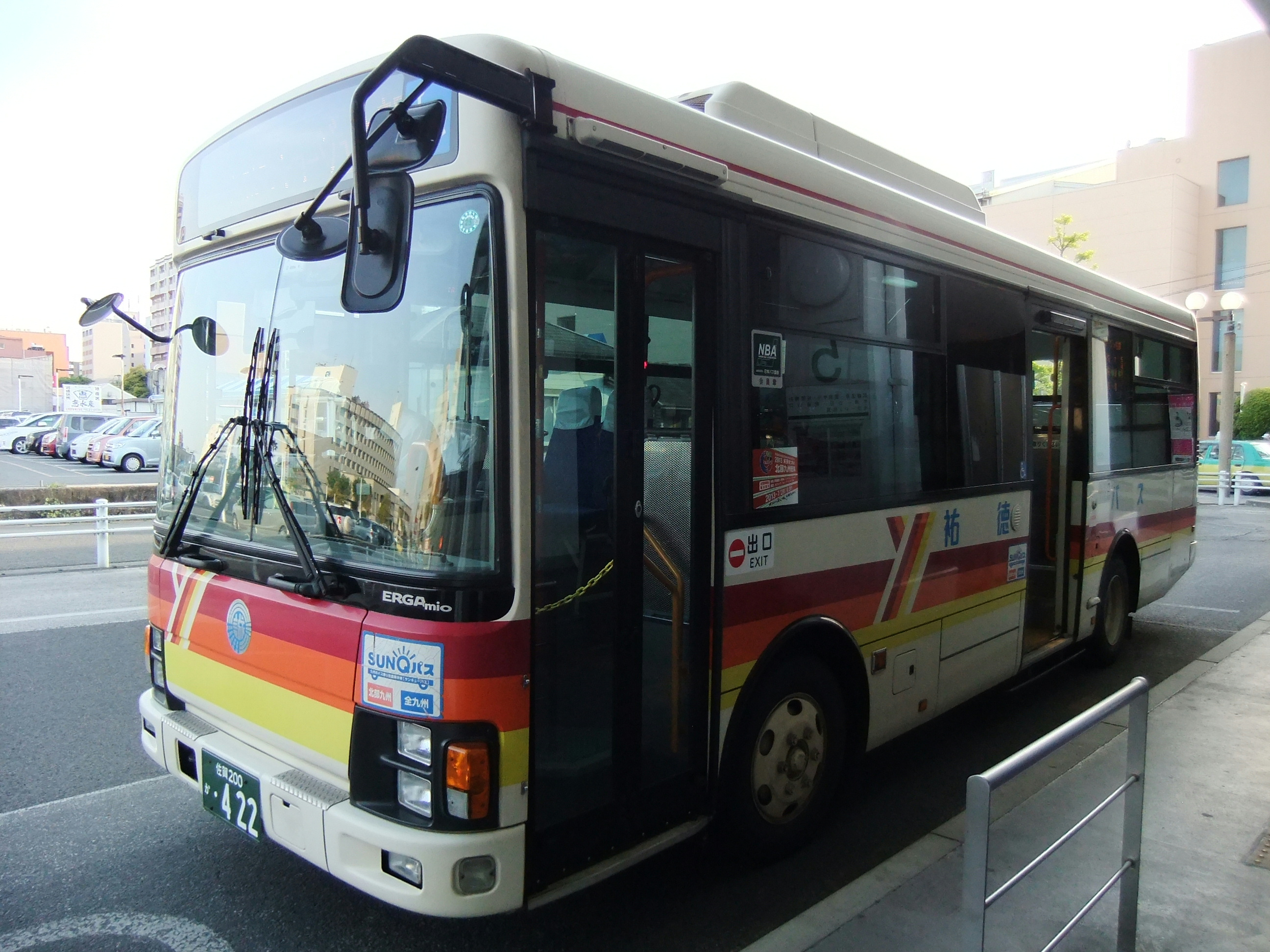 Isuzu, Erga Mio, Yutoku Bus.